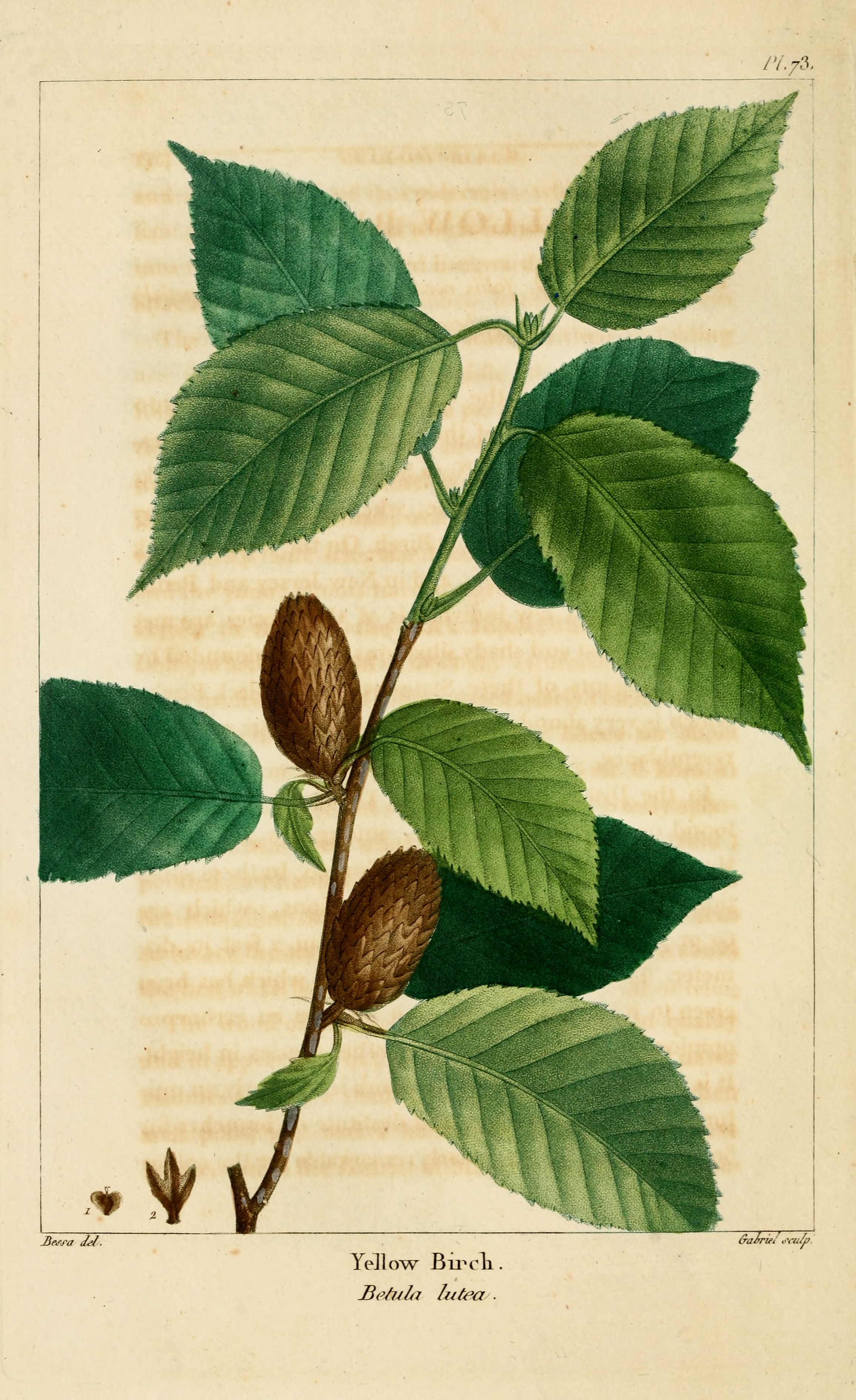 Plate 73 from The North American Sylva. Betula alleghaniensis - yellow birch.Original caption: Betula lutea. Yellow Birch.